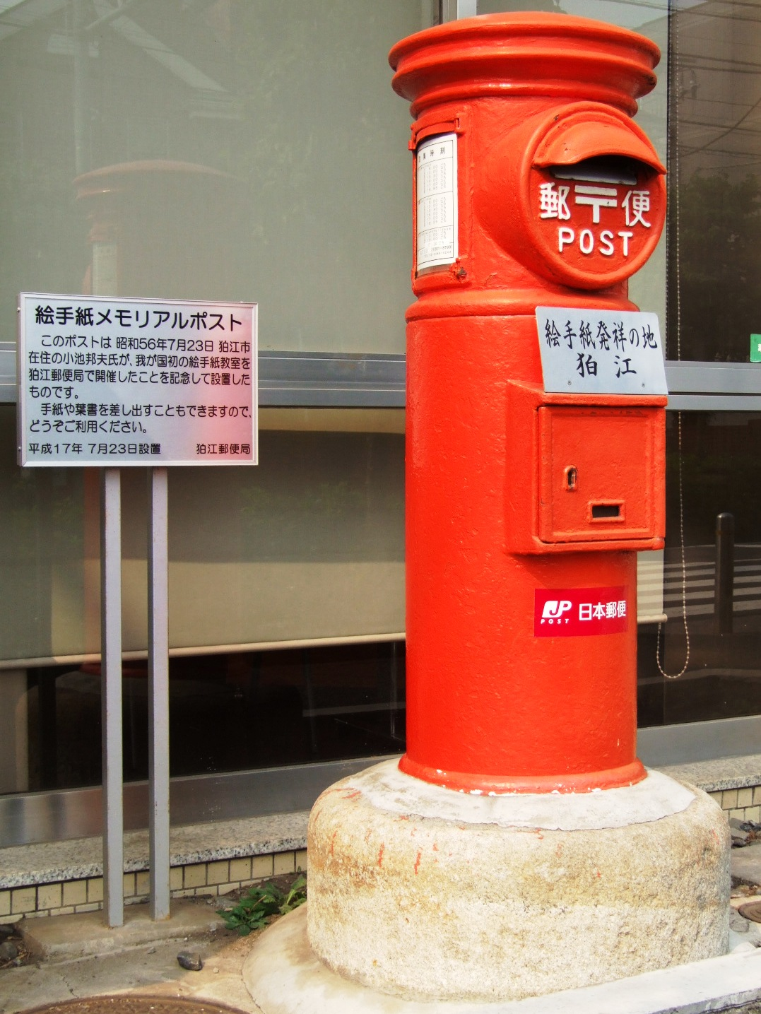 Komae Post Office Mailbox,Japan Post,Japan